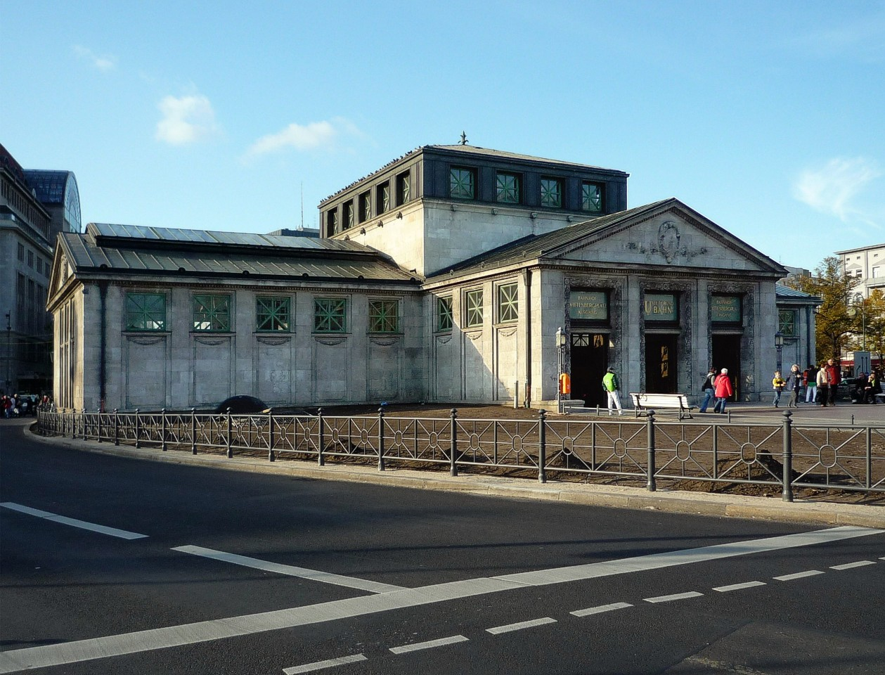 Berlin, building of the subway-station "Wittenbergplatz".Total view.